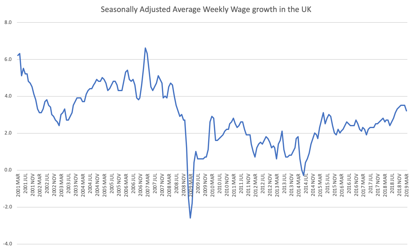 This graph demonstrates the seasonally adjusted average weekly wage growth in the UK from 2001 to 2019 quarterly.